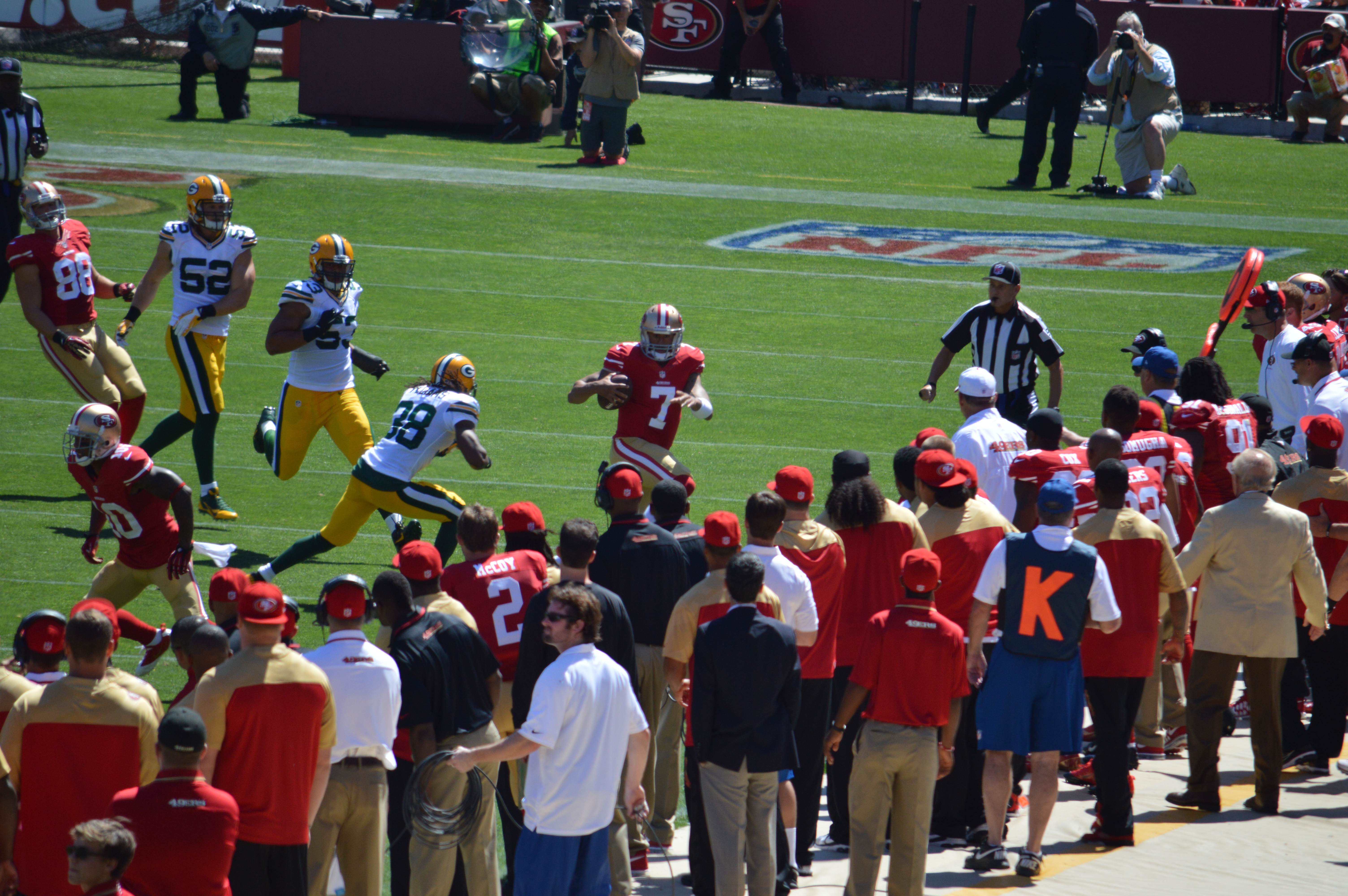 San Francisco 49ers quarterback Colin Kaepernick scrambles with the ball against the Green Bay Packers in both teams' season opener.